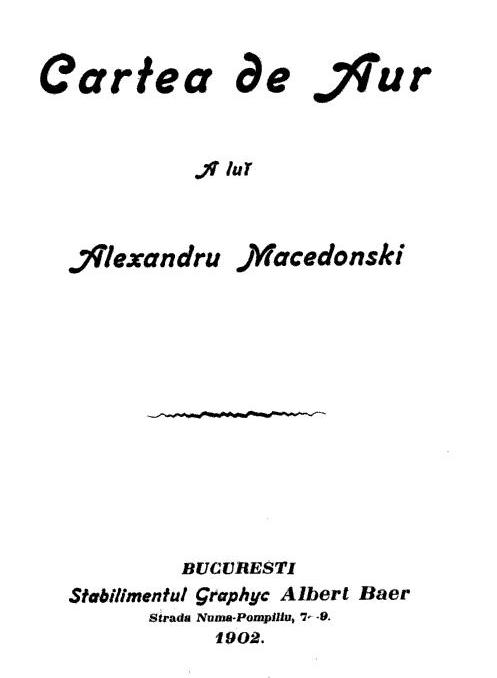 Alexandru Macedonski - First page of Cartea de aur, published by Stabilimentul Grafic Albert Baer in 1902.